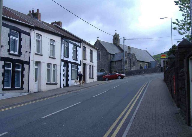 Penrhiwfer Road, Penrhiwfer The church at the top of the street, is St Iltyd's.